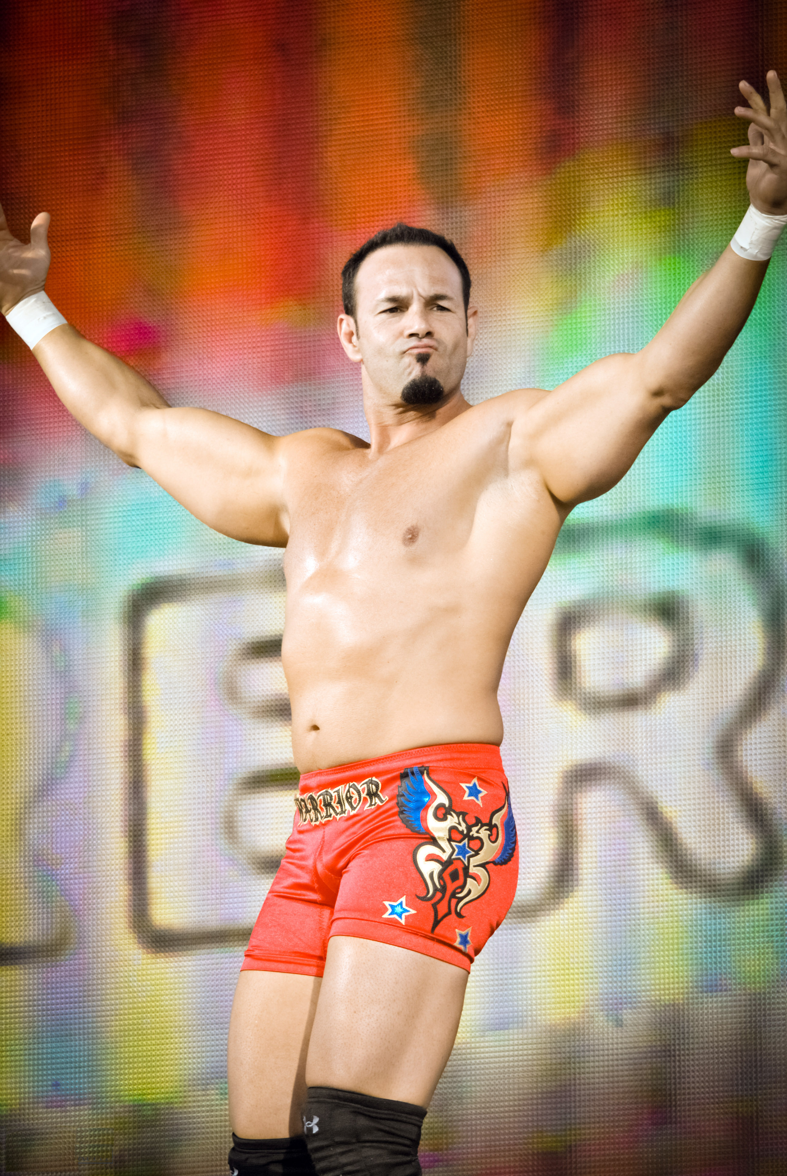 Chavo Guerrero at WWE's Tribute to the Troops show in Fort Hood, Texas, on December 11, 2010.